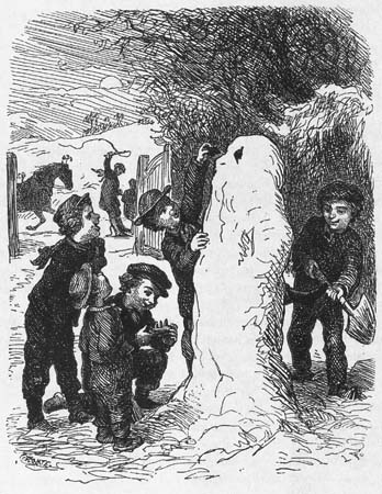 Illustration from HC Andersen's "The Snowman" (Sneemanden) c. 1871